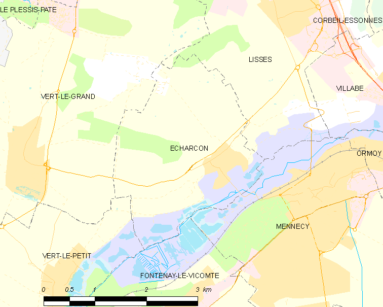 Map of French municipality Écharcon